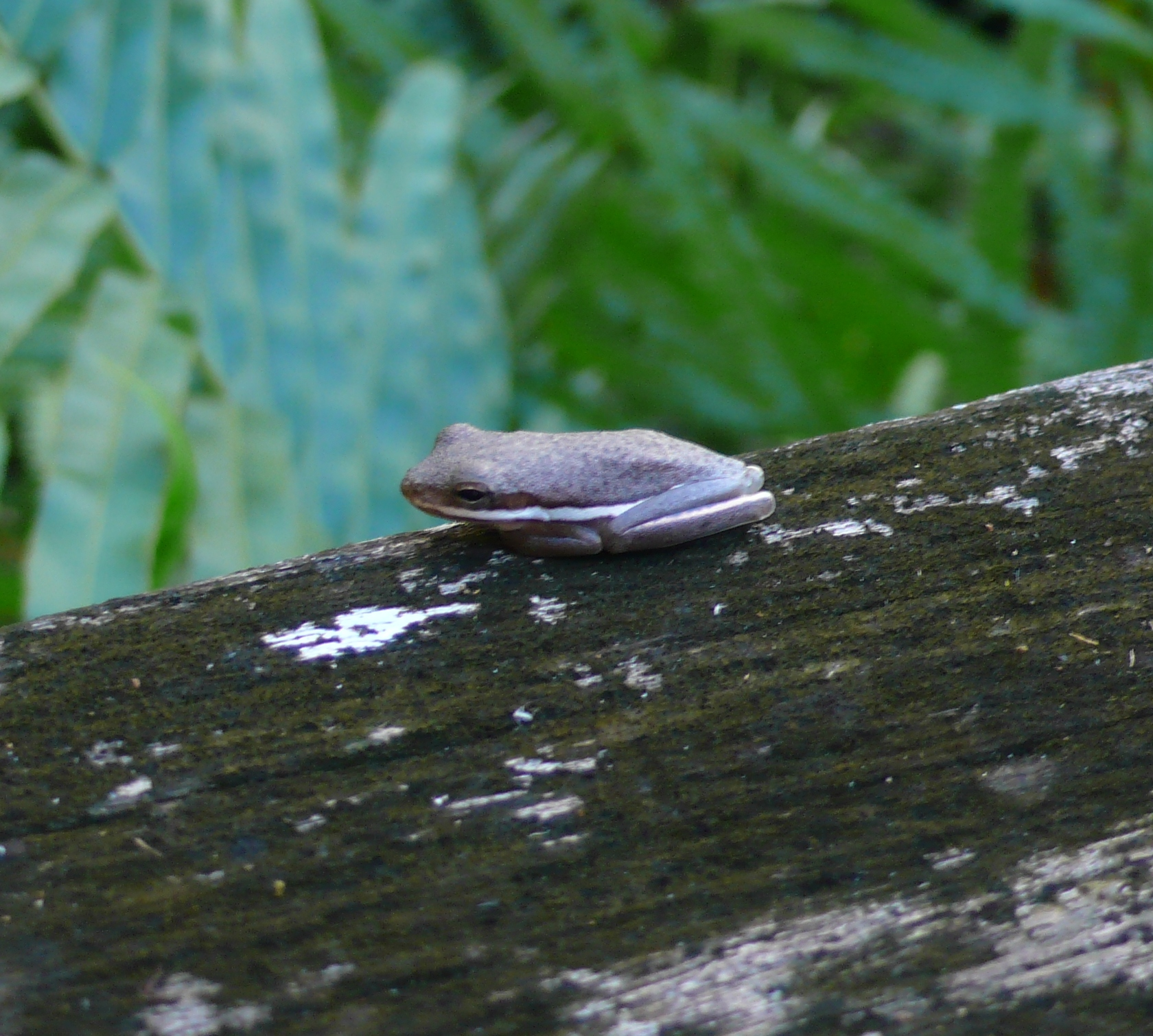 American green tree frog (Hyla cinerea). This photo was taken in the National Audubon Society's Corkscrew Swamp Sanctuary, located near Naples, Florida. Not as green or as smooth as the average American green tree frog.